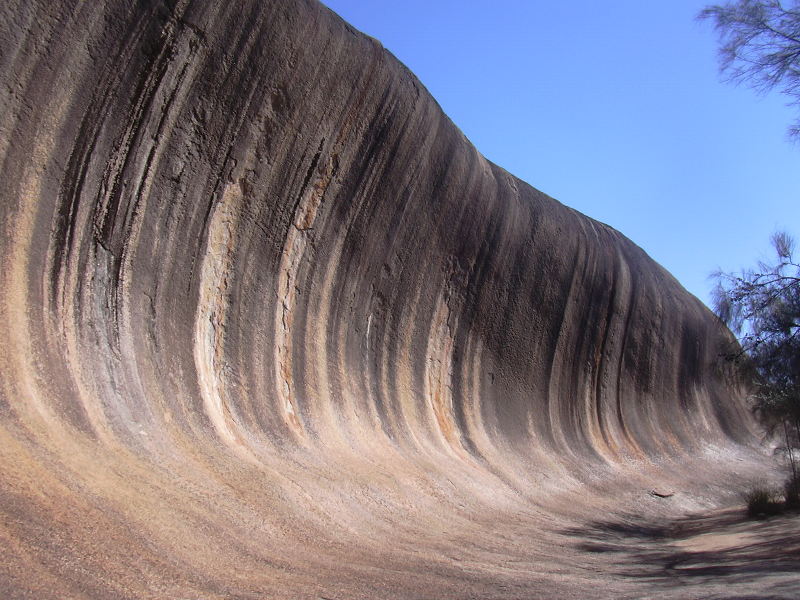 Wave Rock (Western Australia)